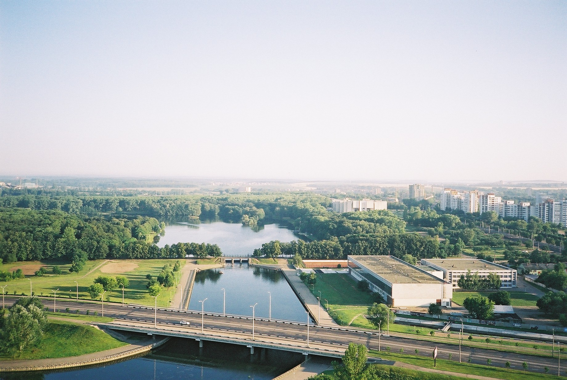 view of Minsk. Victory Park